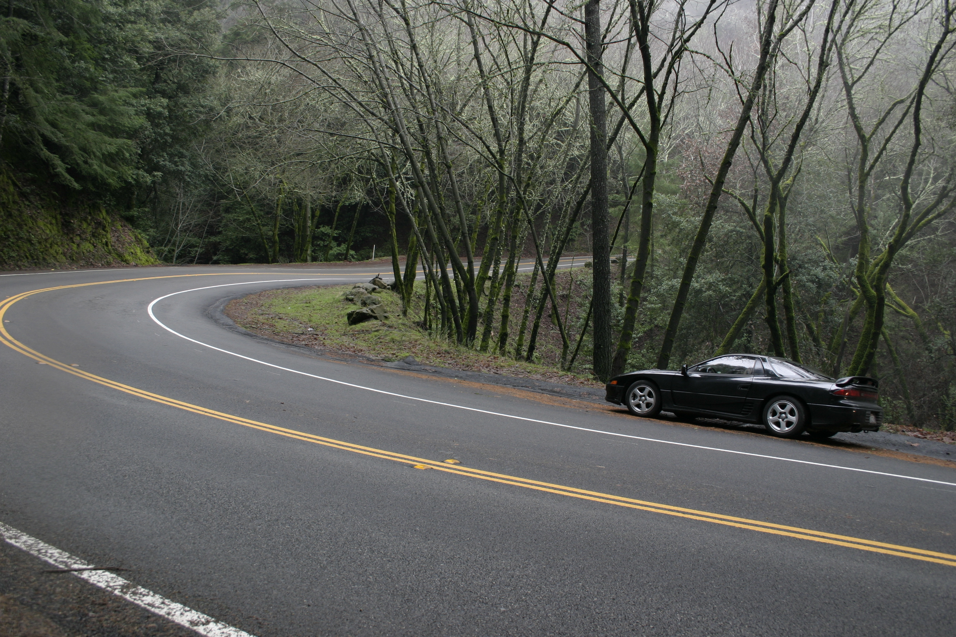 (Taylor Alexander, Shot on Highway 9 in Los Gatos, CA, 2005) I took this photo as part of my personal work, and decided that the Highway 9 entry needed a better picture, so I decided to upload it!